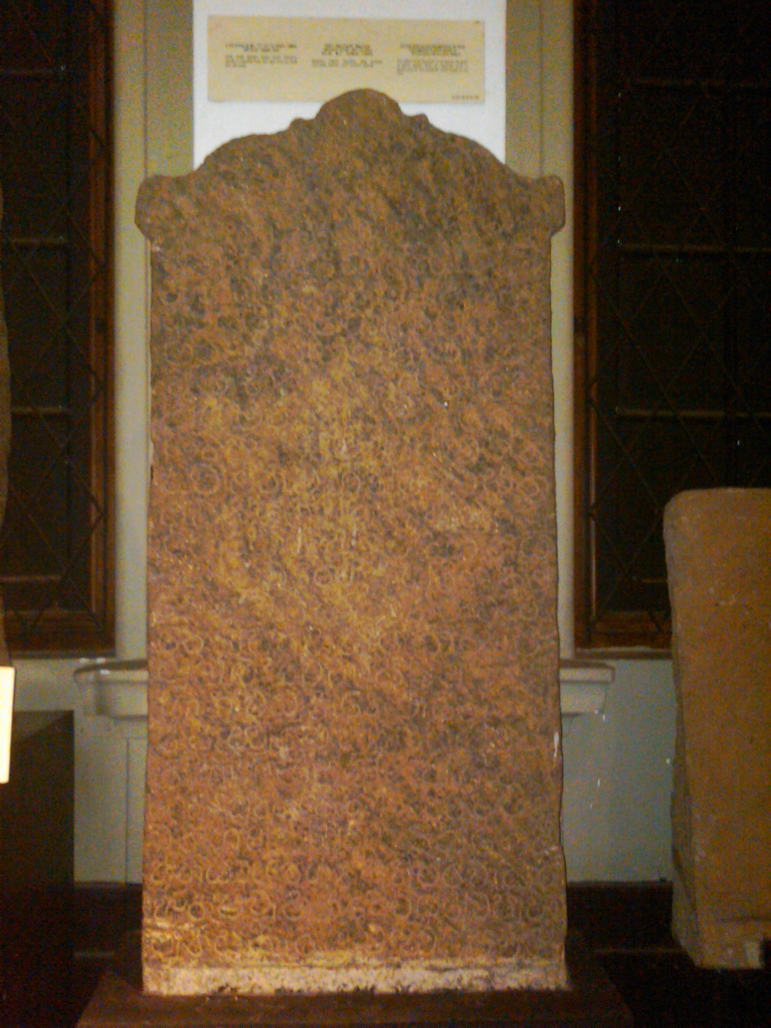 Donative pillar inscription for the Nagarasa Kovil within the Tennvaram temple complex. It was created for Vijayabahu V1 (1510 - 1521) of Kotte kingdom in Sri Lanka.